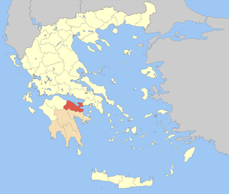 Locator map of Korinthia prefecture (Νομός Κορινθίας) in Greece